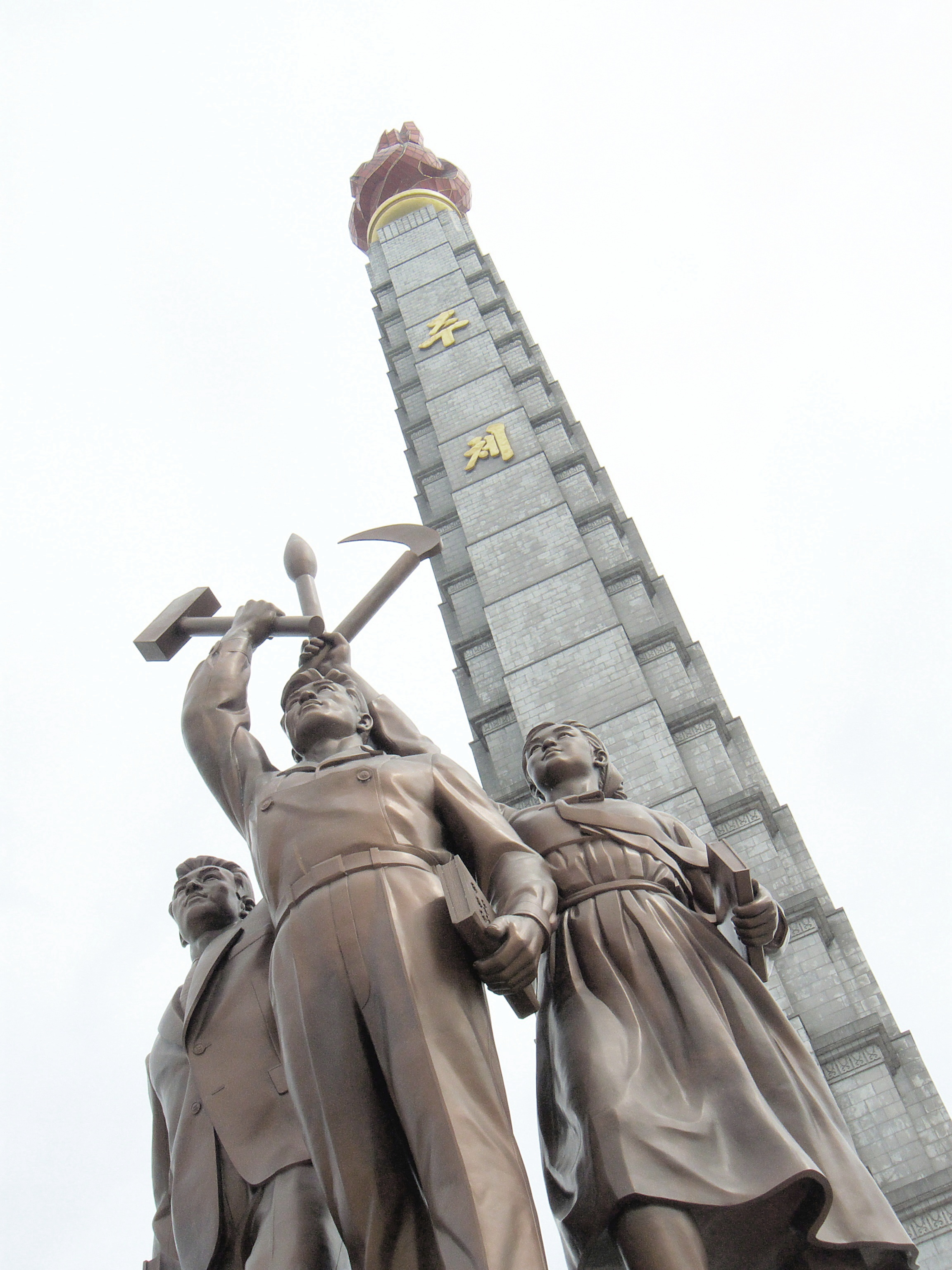 The Tower of Juche Idea was completed in 1982 to commemorate Kim Il Sung's 70th birthday. The Juche Idea, the official state ideology, developed by the man himself, is a blend of Marxism-Leninism and Autarky. In front of the tower stands a statue of the idealized worker, farmer and intellectual, holding up the hammer, sickle and brush respectively.